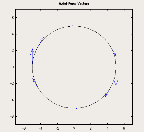 Diagram illustrating how Darrieus wind turbine or Gorlov helical turbine works - drawn by the author to go with article